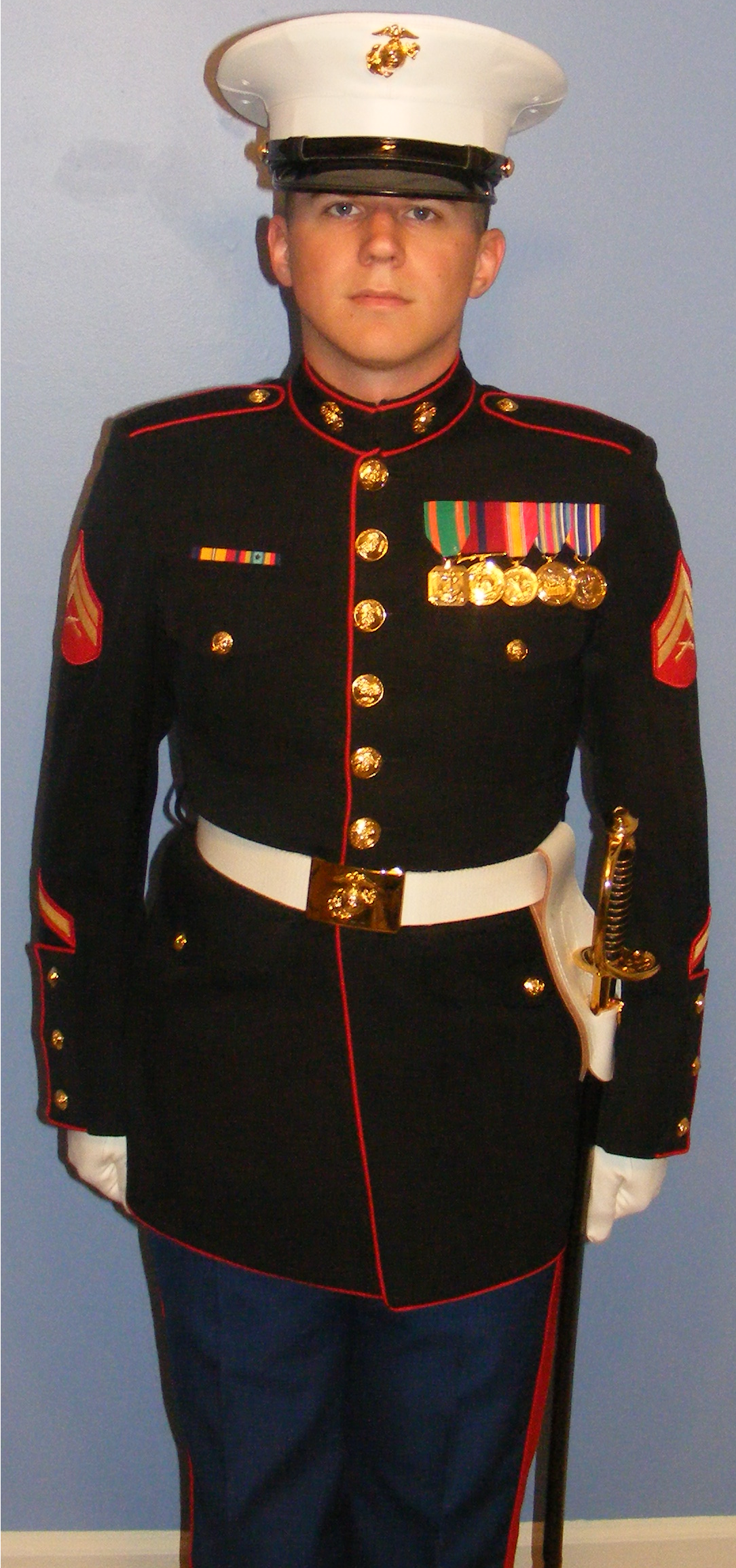 User:Bahamut0013 wearing the United States Marine Corps Dress Blue A uniform with the NCO sword, Navy and Marine Corps Achievement Medal, Good Conduct Medal, National Defense Service Medal, Global War on Terrorism Expeditionary Medal, Global War on Terrorism Service Medal, Combat Action Ribbon, and Sea Service Ribbon with one bronze service star.